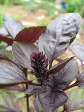 'Red Rubin' basil (Ocimum basilicum var. purpurascens) from the herb garden at St.Andrews-Sewanee School